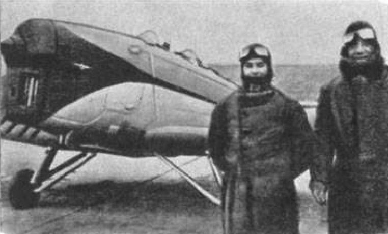 Irina Burnaia and Petre Ivanovici with their IAR-22 plane, YR-INA, before the raid in Africa